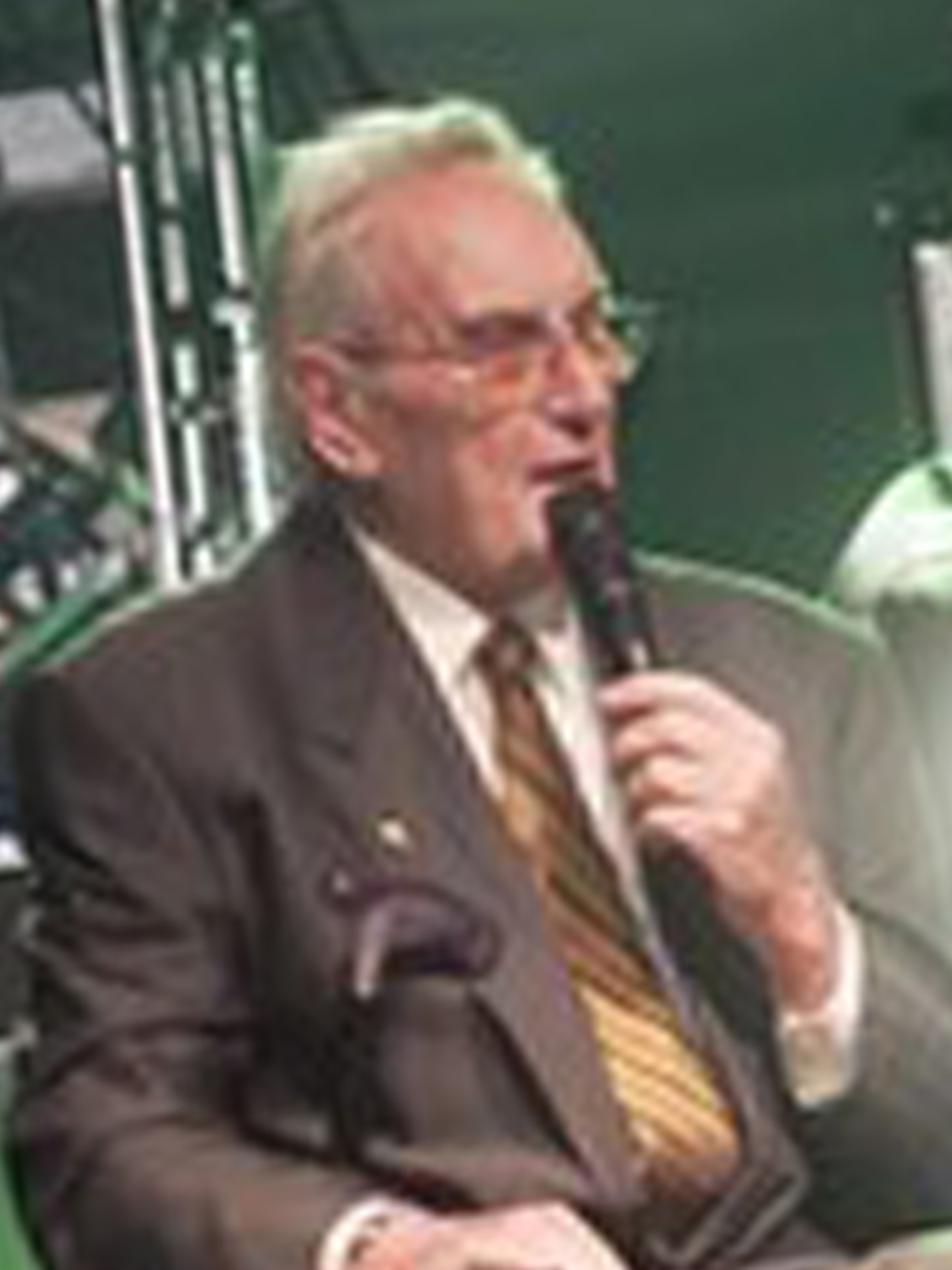 Fedon Matheou in Athens OAKA stadium.